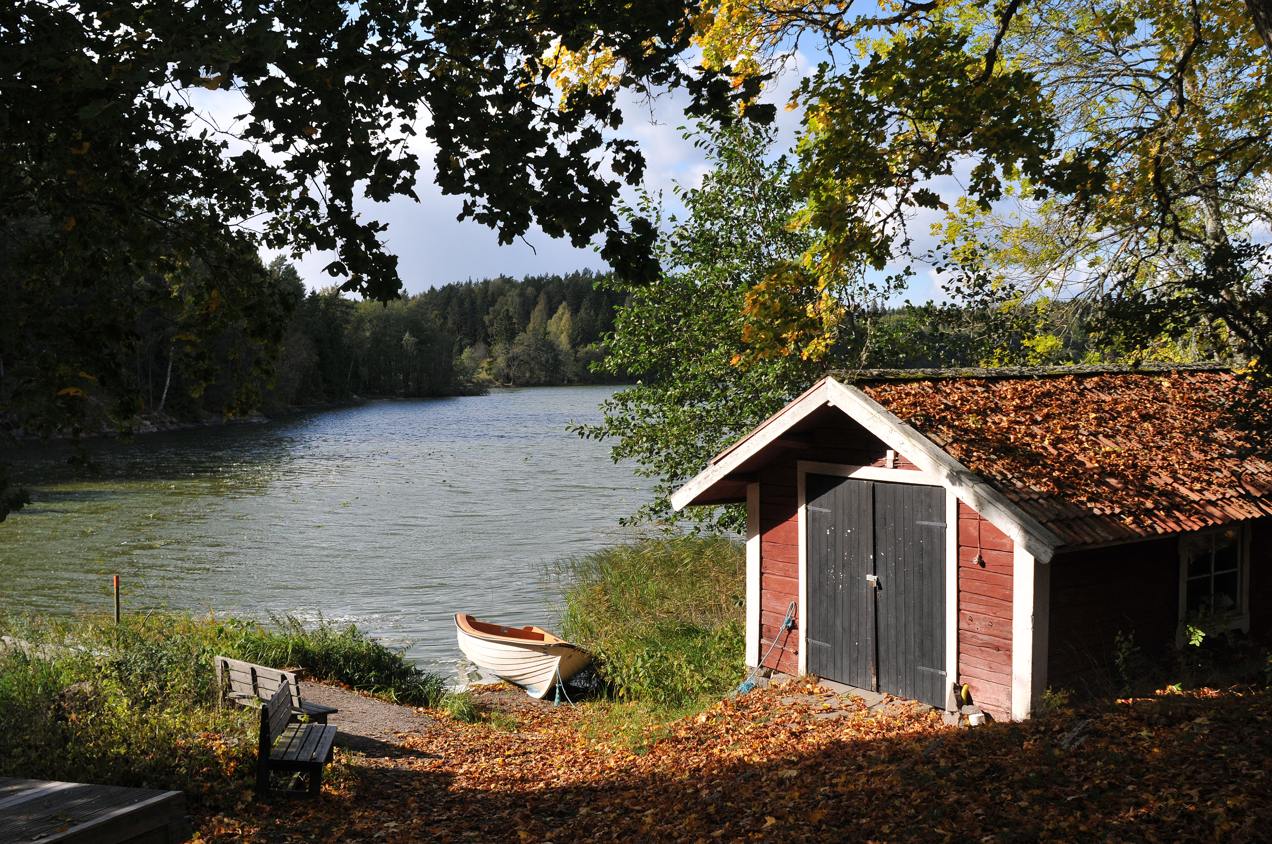 Lake Hovrasjön at Söra in Nyköping municipality.